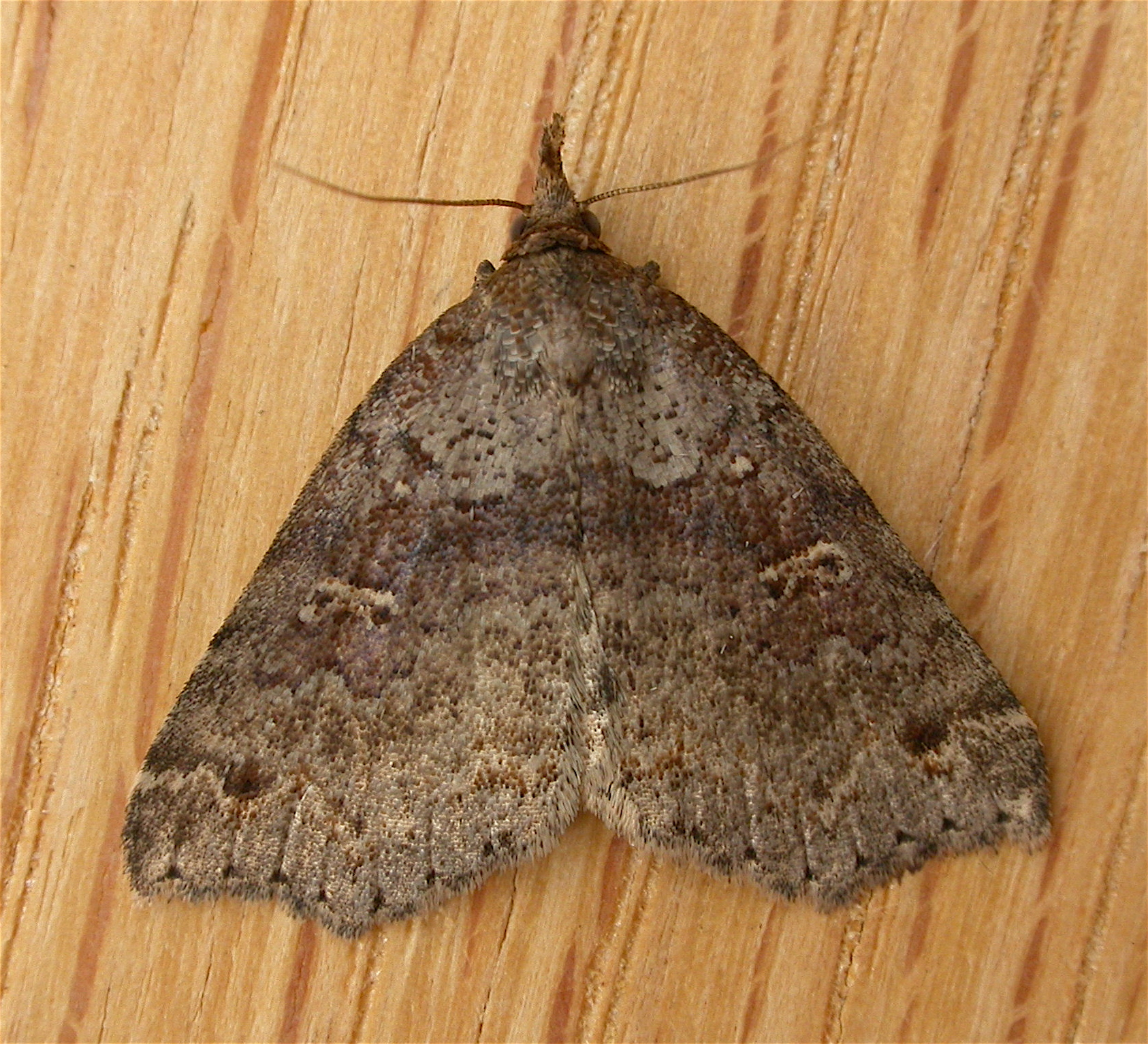 Lithilaria ossicolor Rosenstock, 1885, to MV light, Blackheath, NSW, 16/17 January 2009